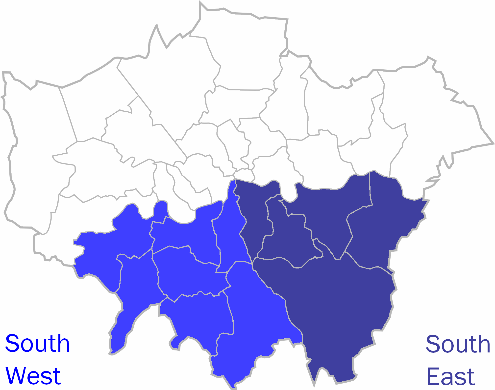 Map of South London. Boundary commission definition.